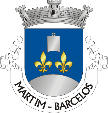 Crest of Martim, a parish in the municipality of Barcelos (Portugal)